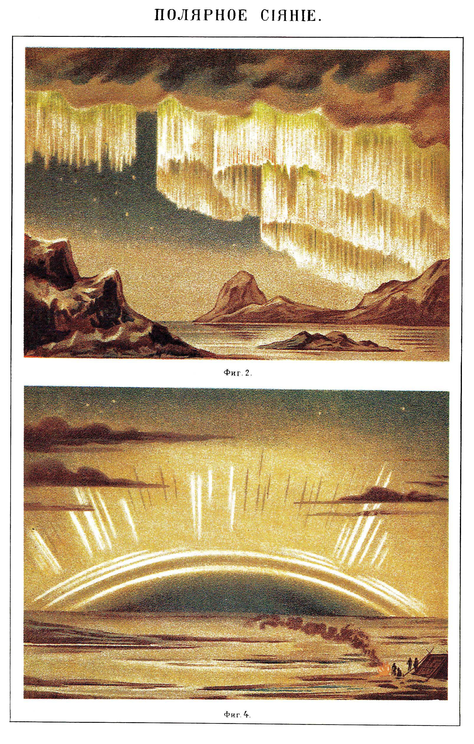 Illustration from Brockhaus and Efron Encyclopedic Dictionary (1890—1907)